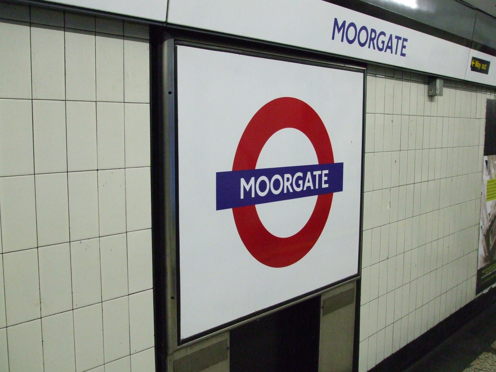 Roundel on Moorgate station Northern line northbound platform